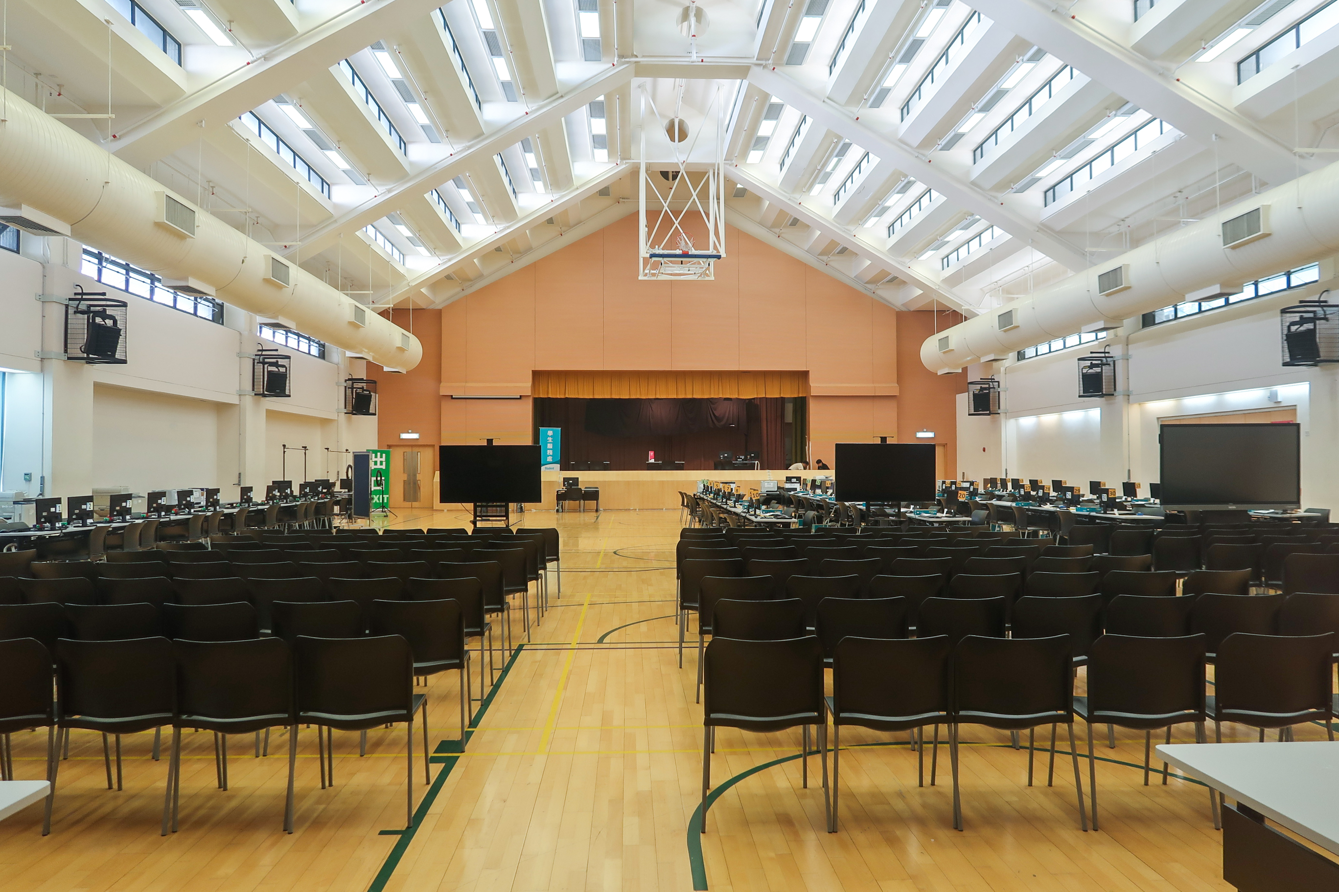 IVE Chai Wan Campus Wu Jieh Yee Memorial Hall